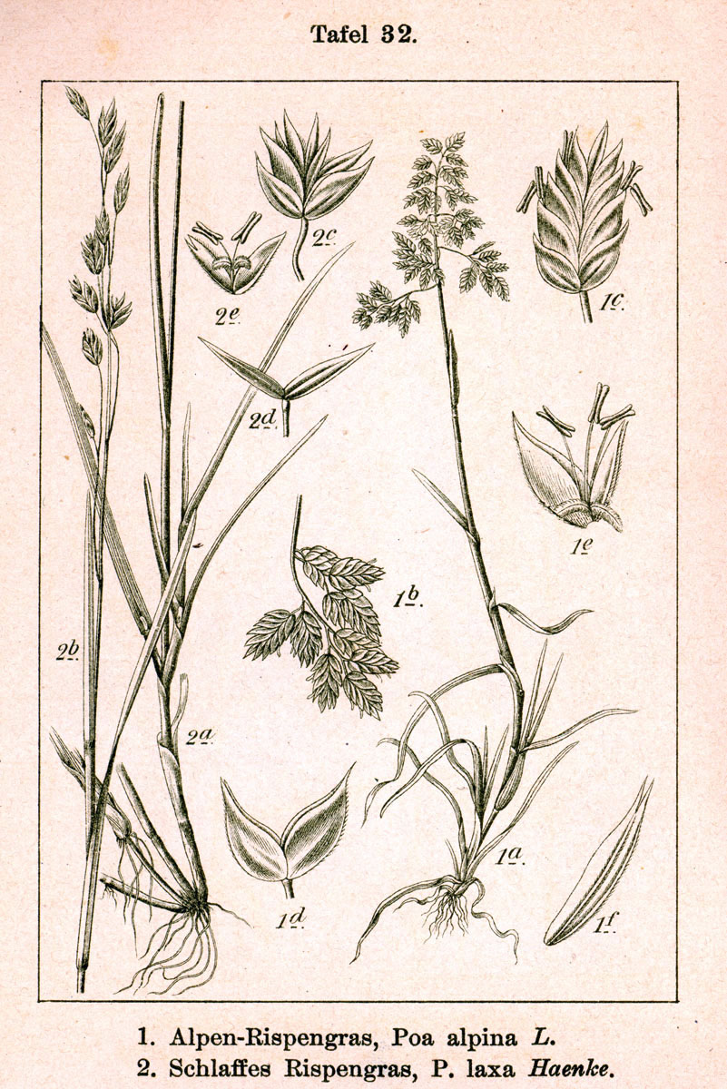 Original Description 1. Alpen-Rispengras, Poa alpina L. 2. Schlaffes Rispengras, Poa laxa Haenke